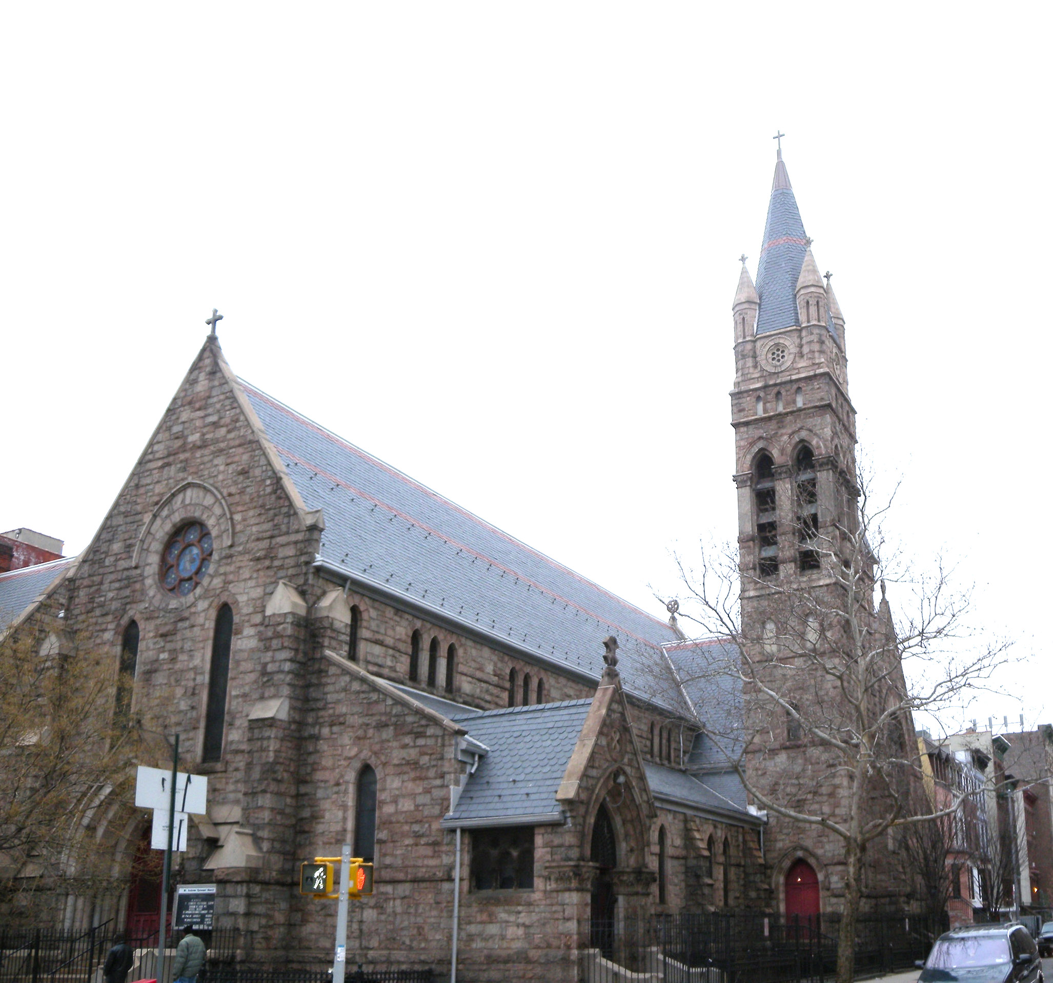 Looking east across 5th Avenue at St. Andrew's Episcopal Church (New York, New York) late on a cloudy afternoon.